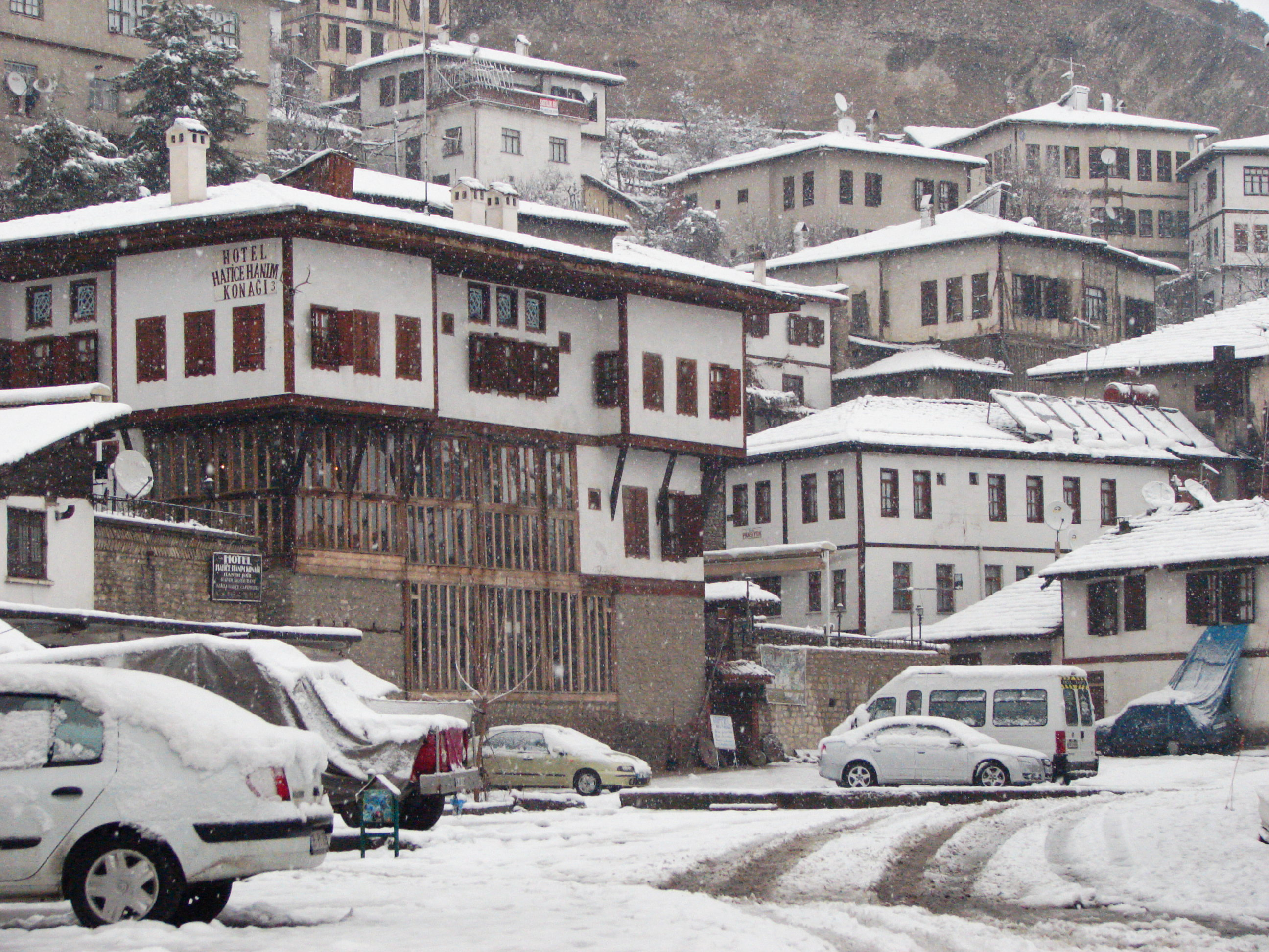 Photographs from Safranbolu